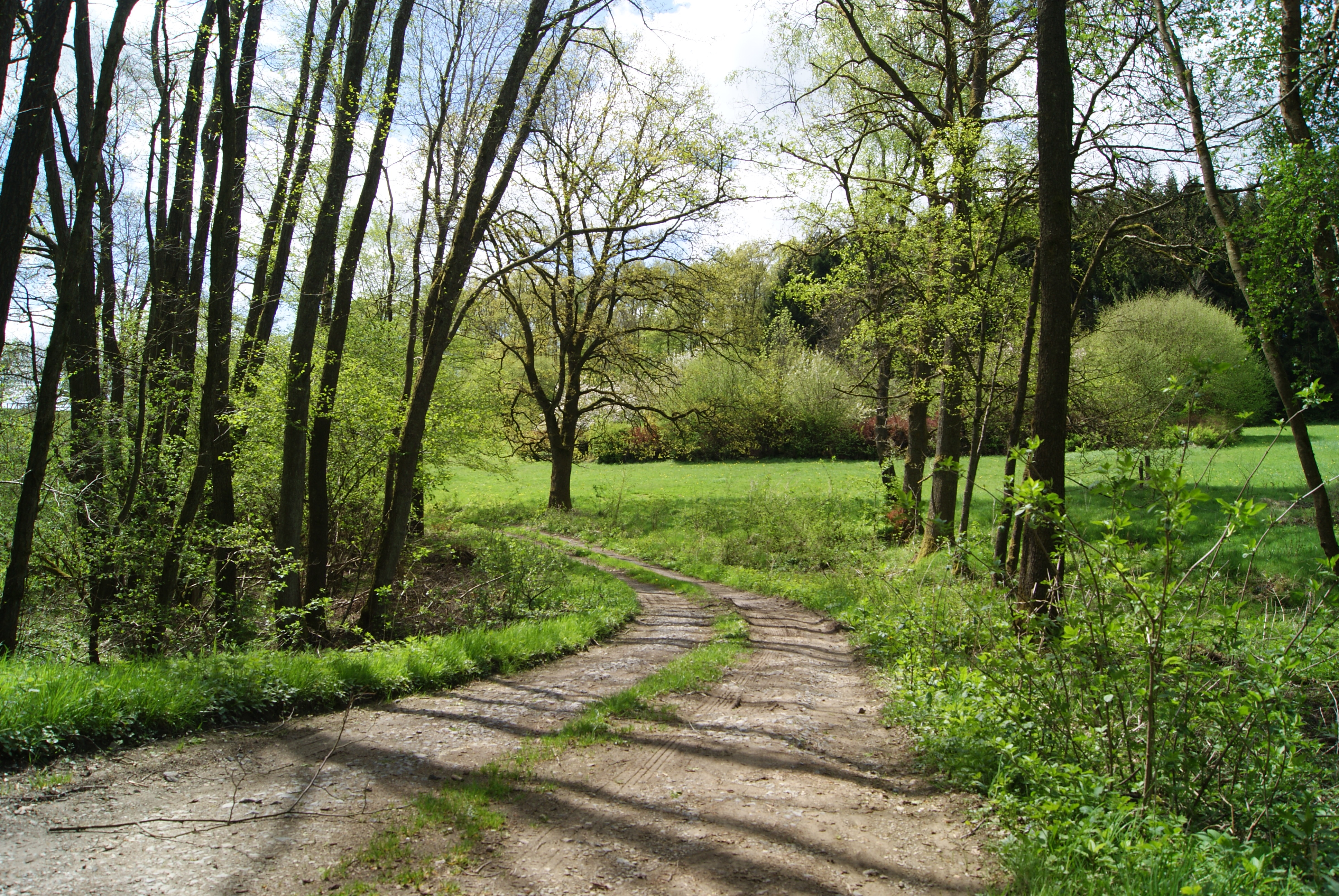 Nature preserve Rödersche, Germany. Nature reserves in Kreis Siegen-Wittgenstein.